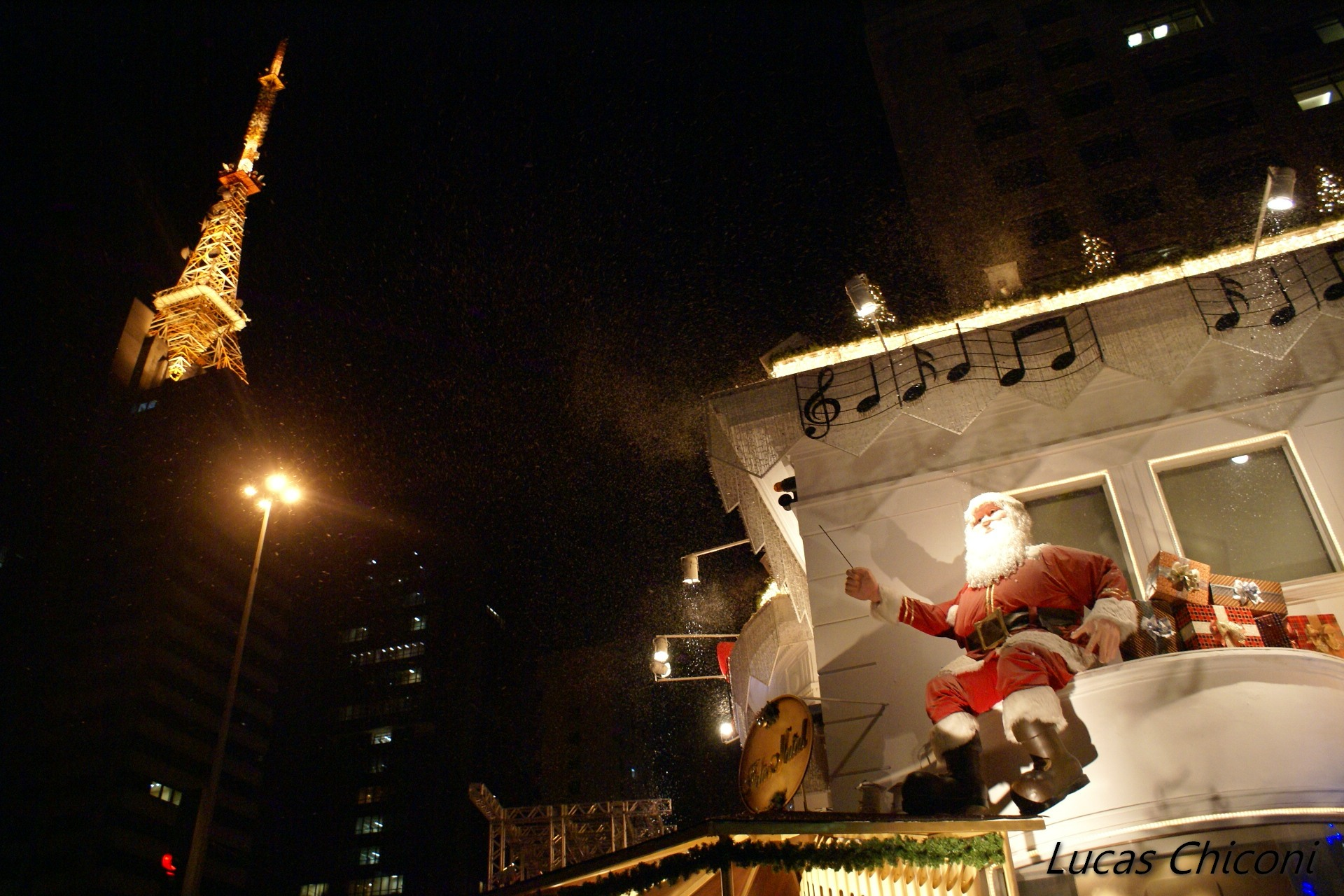 Christmas decoration in Paulista Avenue, São Paulo City, Brazil.